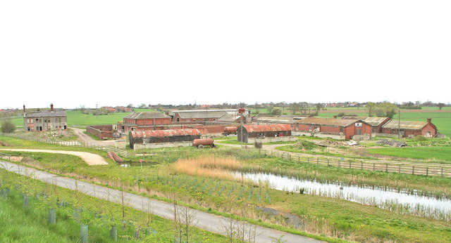 Selby, Old MOD Ordnance Depot The Ordnance Depot was closed down in the 1950's It is now a farm. There are signs of the old railway